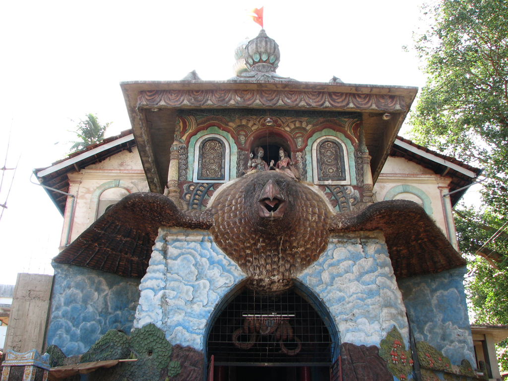 Nilesh Sutar